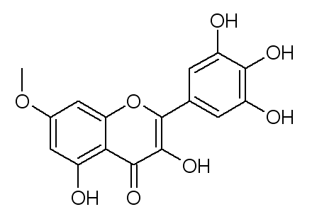 chemical structure of europetin